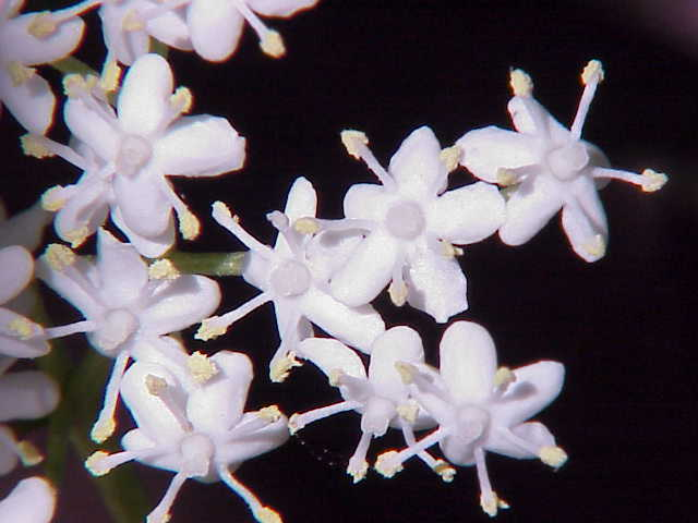 Species: Sambucus nigra Family: Caprifoliaceae Image No. 1